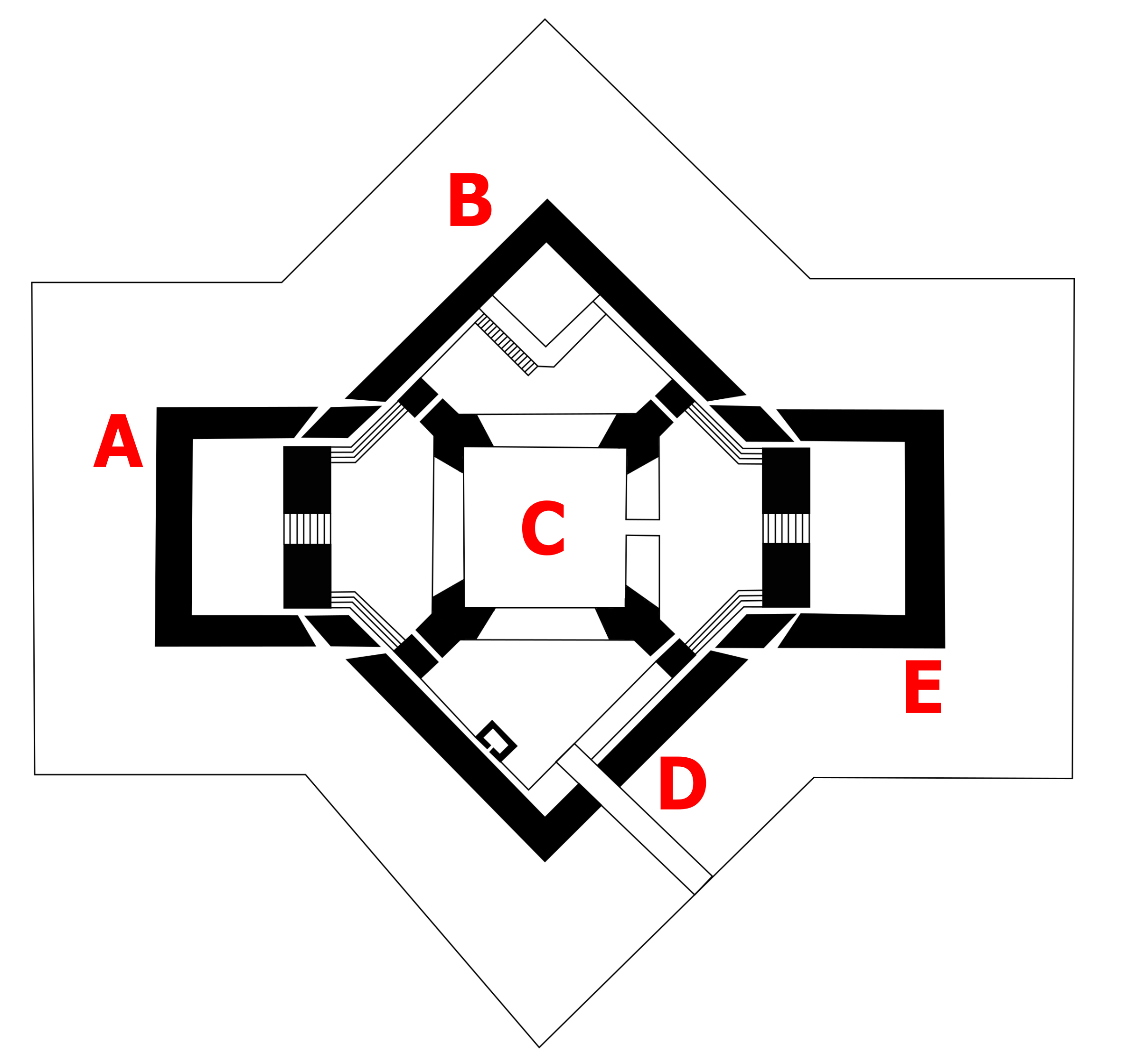 Southsea Castle Plan 1577 - after royal plan of 1577